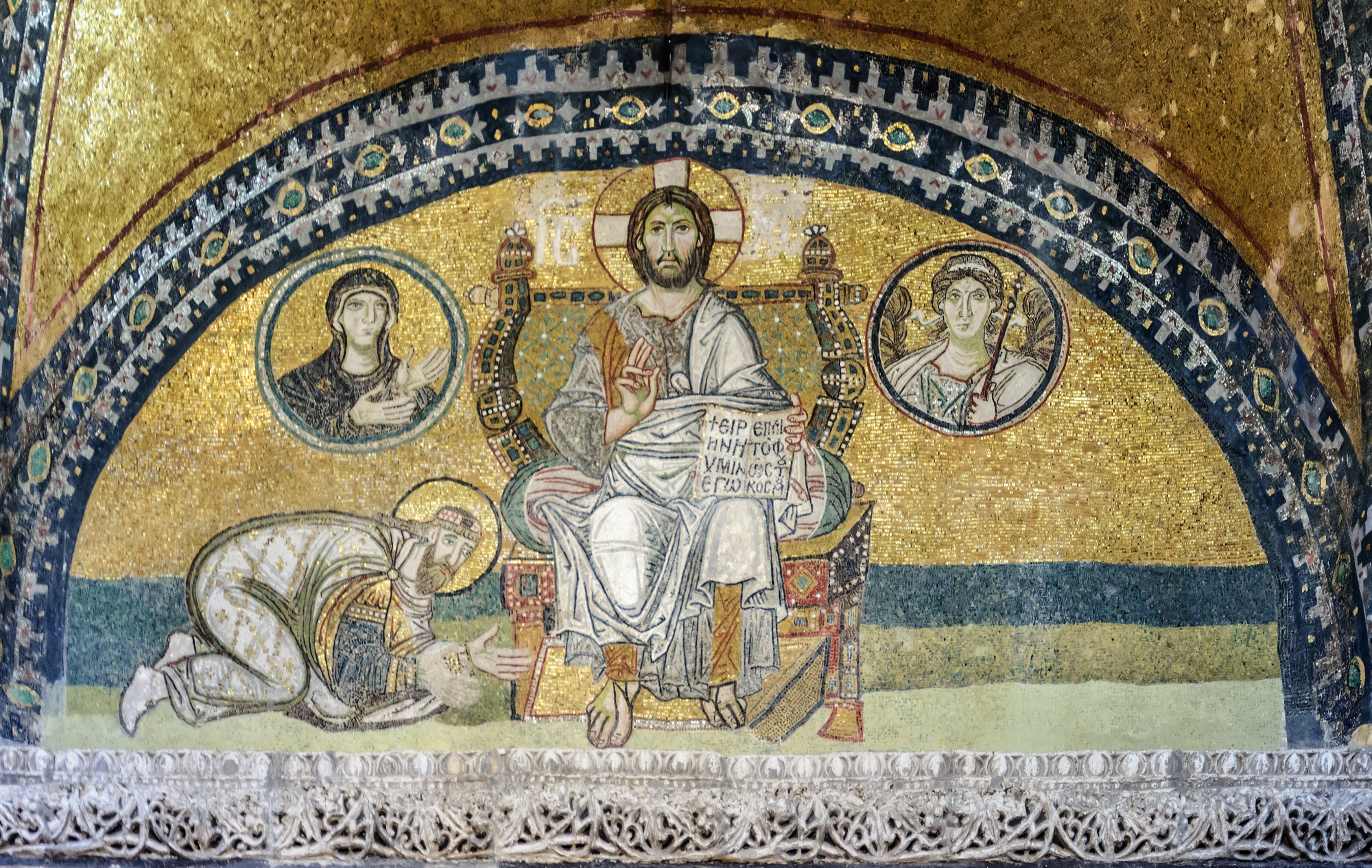 Imperial Gate mosaics in the former basilica Hagia Sophia of Constantinople (Istanbul, Turkey) The emperor Leo VI the Wise is bowing down before Christ Pantocrator. In medallions: on the left of Christ, the Archangel Gabriel; on his right, Mary.